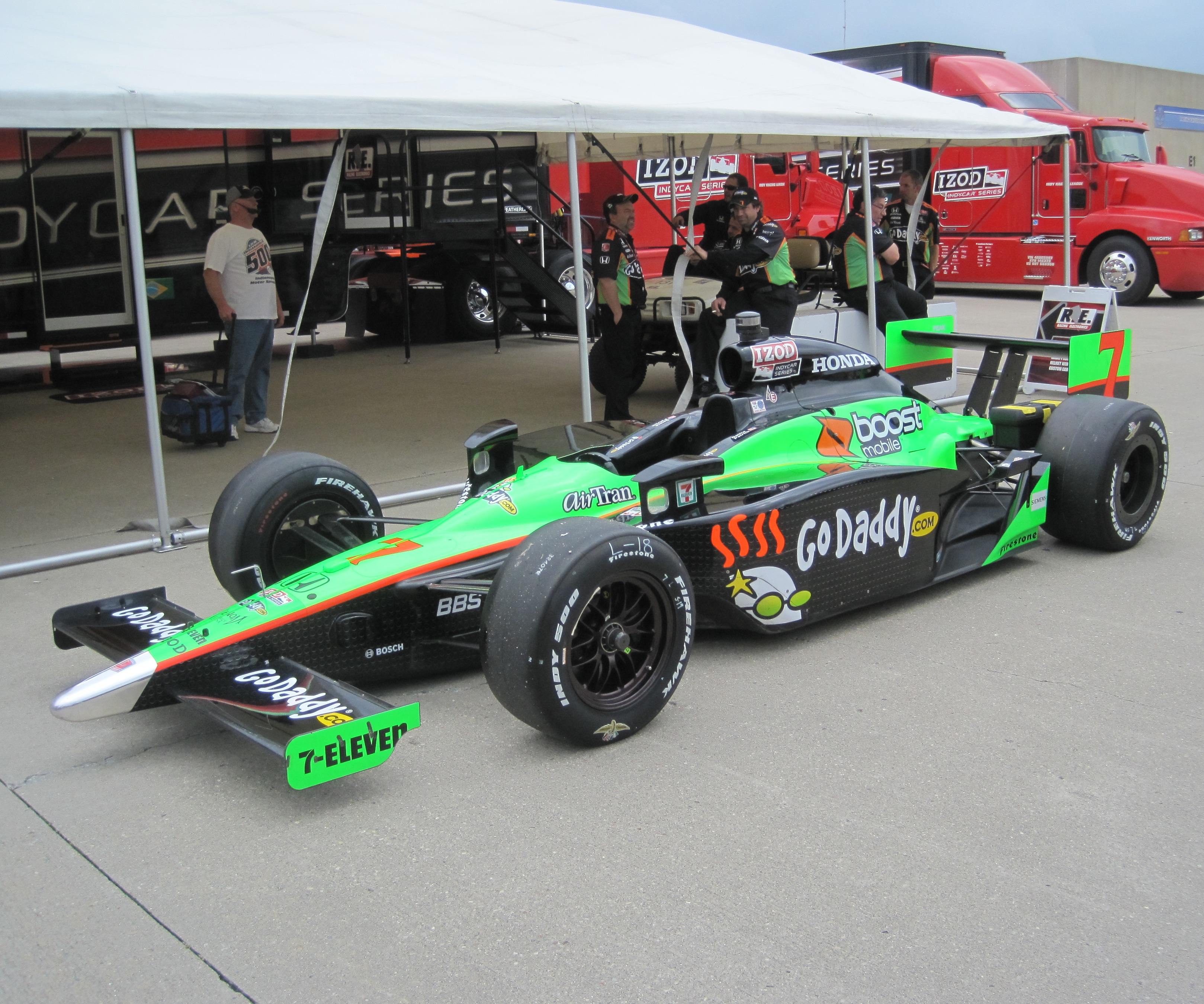 Danica Patrick's car at the Indianapolis Motor Speedway for day 7 of practice (Fast Friday) for the 2010 Indianapolis 500 on Friday, May 21, 2010.